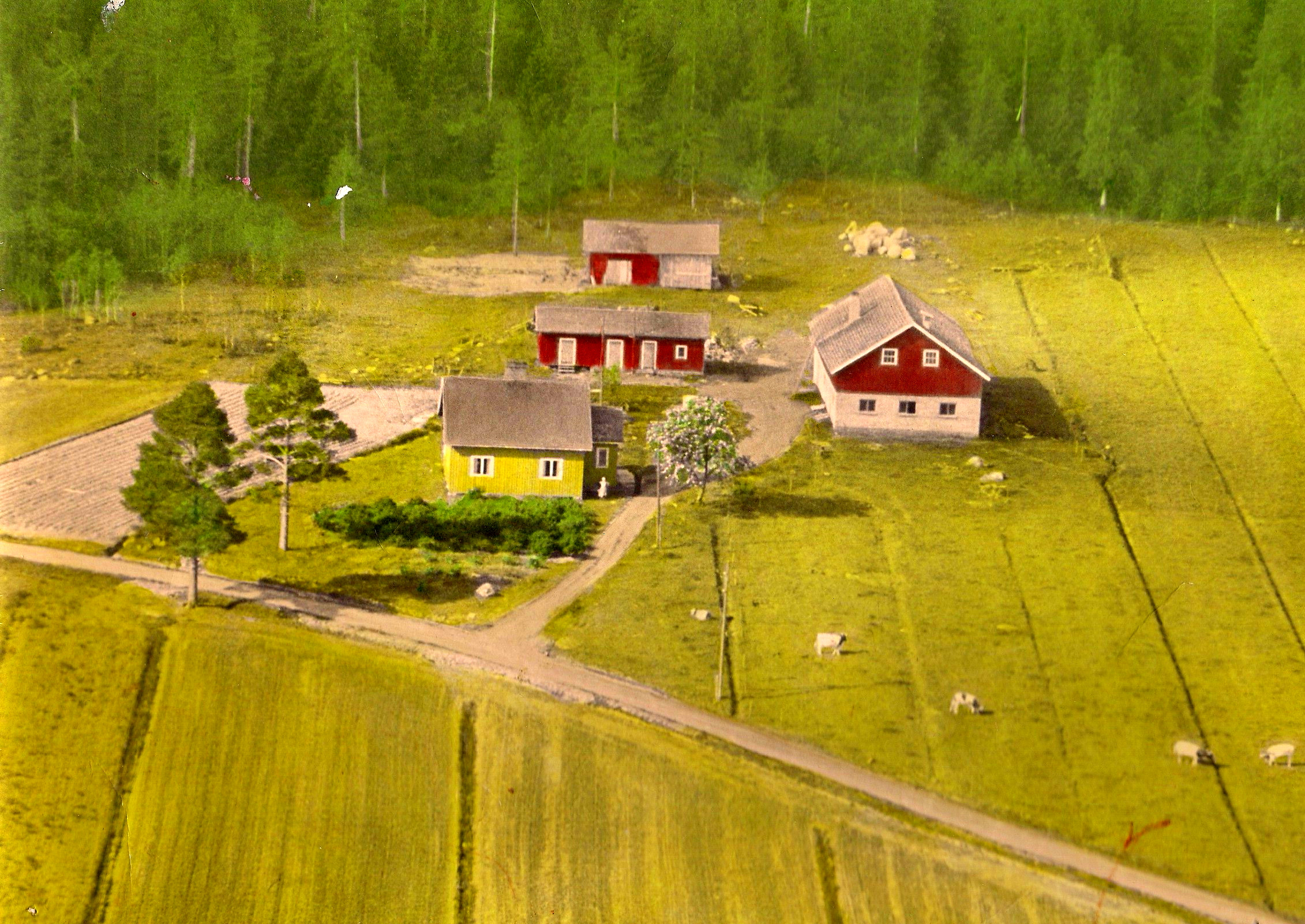 Farm in southern Finland in the 1950s.